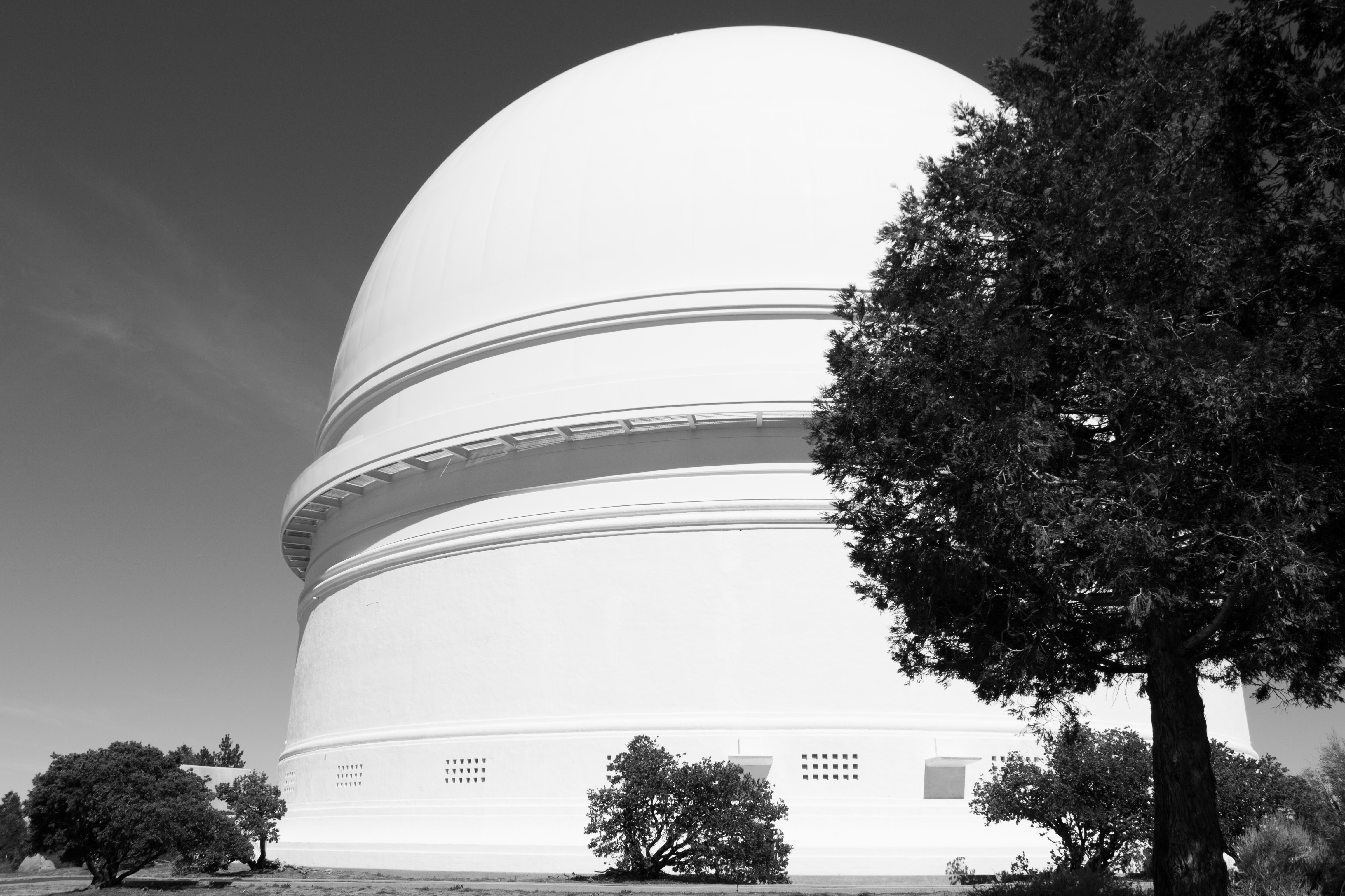 Palomar Observatory